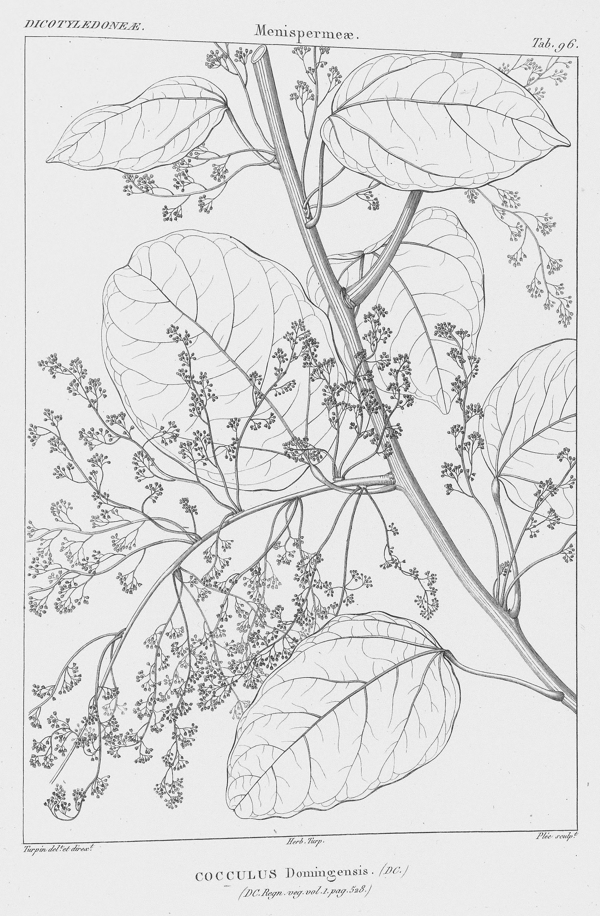 Illustration of Hyperbaena domingensis (Orig. Cocculus domingensis)